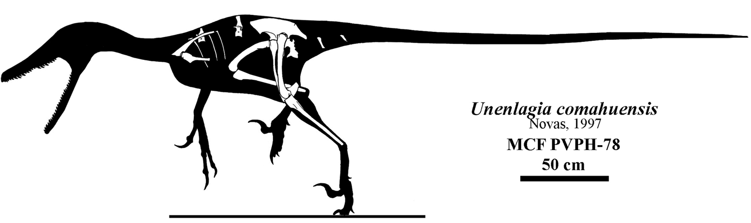 Skeletal reconstruction of Unenlagia comahuensis.